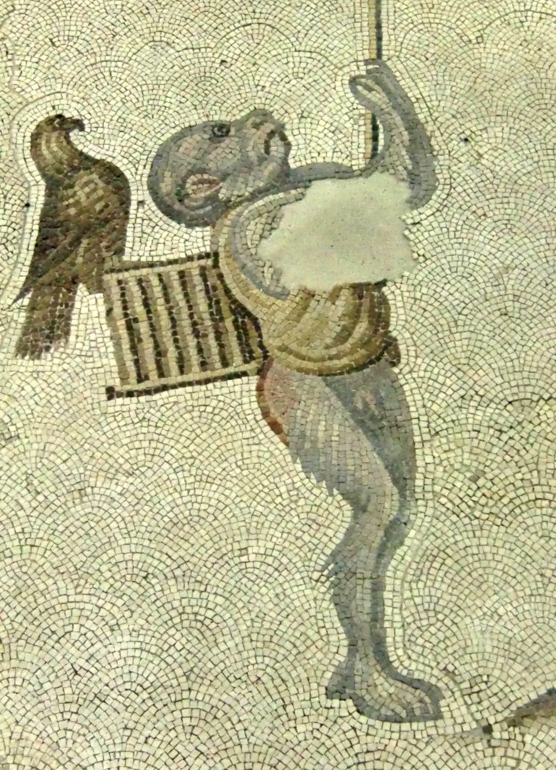 "The Monkey as Bird Catcher (detail), byzantine mosaic, 6th century AD, on display in the Great Palace Mosaic Museum, Istanbul.